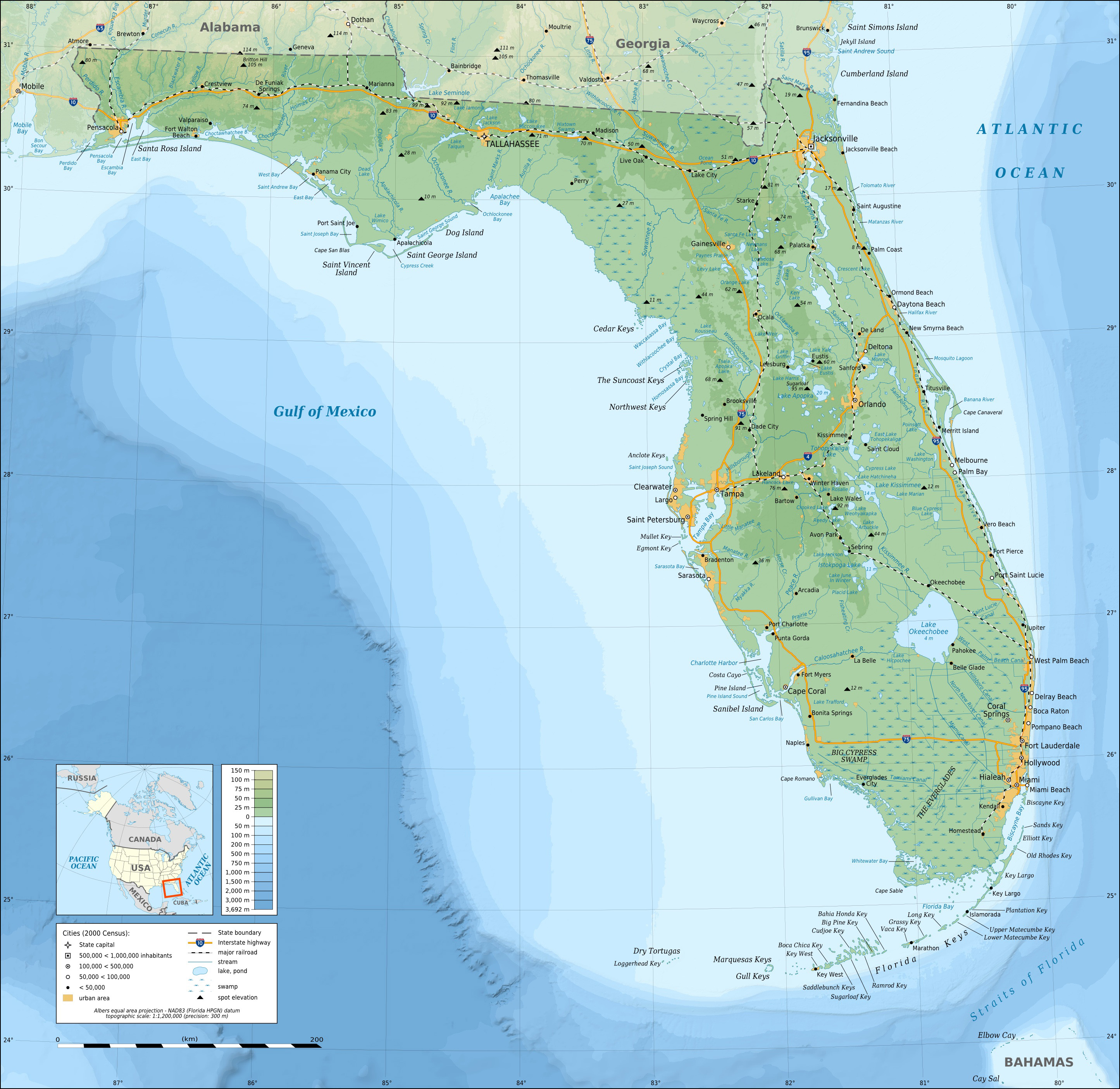 Topographic map of the State of Florida, USA (2000 Census).